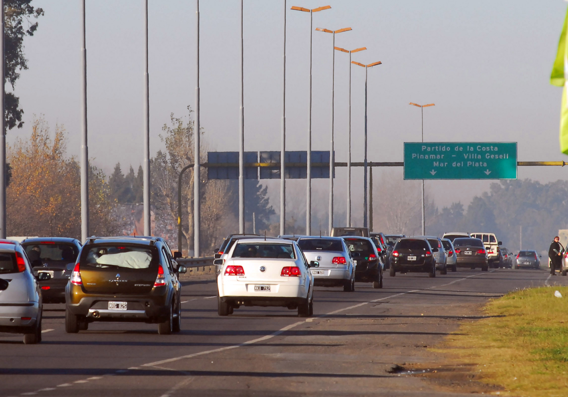 Provincial Route 2 of Buenos Aires, entering to La Costa Partido.